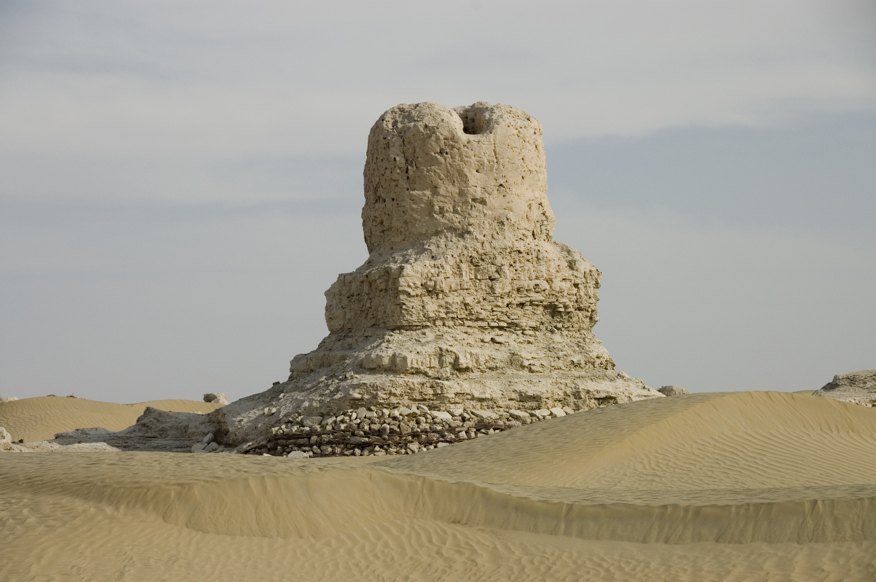 Endere stupa, November 2008.